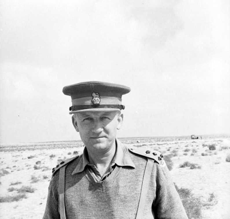 Acting Lieutenant-General W H E Gott (1897 -1942): Portrait of Lieutenant General Gott, 7th Armoured Division, in the Western Desert.